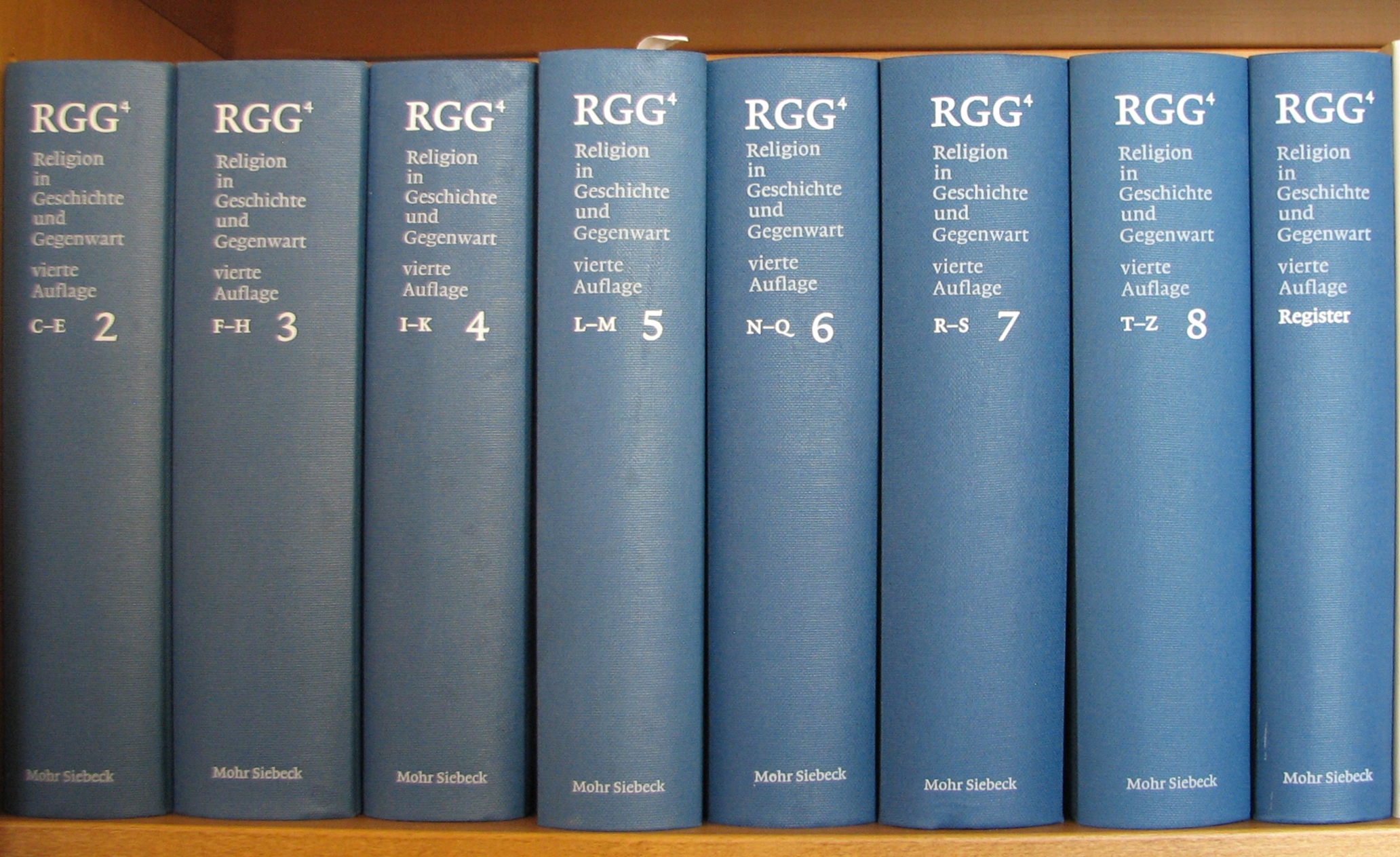 Hans Dieter Betz et al. (Ed.): Religion in Geschichte und Gegenwart. Handwörterbuch für Theologie und Religionswissenschaft. Fourth edition. Mohr Siebeck Verlag, Tübingen 1998–2007.